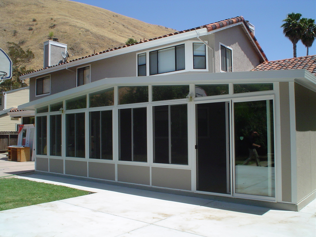 Gable sunrooms offer high ceilings and a more spacious feel. It's pitched roof complements existing roof lines.